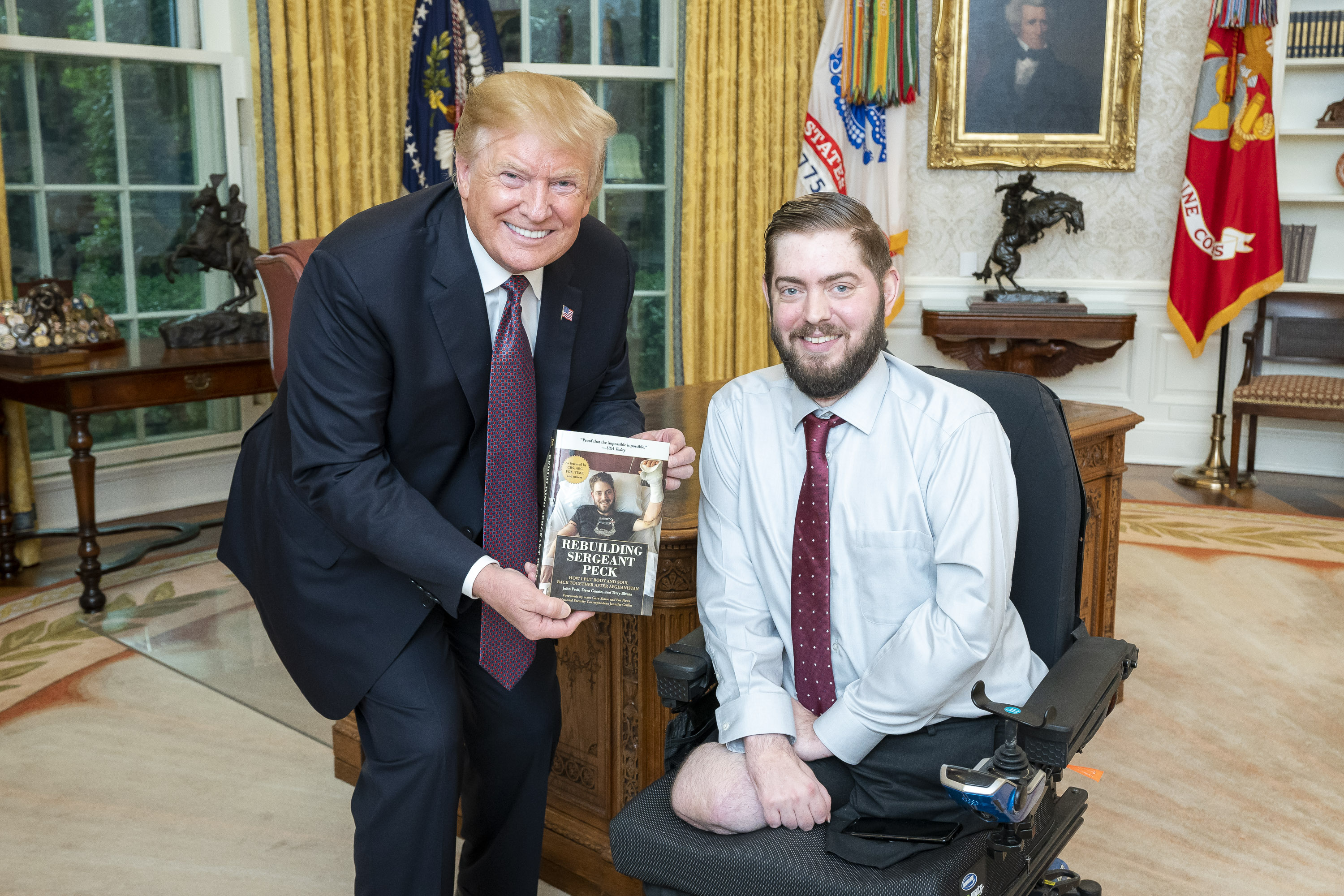 President Donald J. Trump welcomes retired U.S. Marine Sgt. John Peck back to the Oval Office of the White House Monday, May 13, 2019, where Peck presented President Trump with a copy of his newly released book, “Rebuilding Sergeant Peck.” Peck, who lost his arms and legs following an IED explosion in Afghanistan in 2010, first met President Trump at the Walter Reed Military Medical Center in 2017. (Official White House Photo by Tia Dufour)